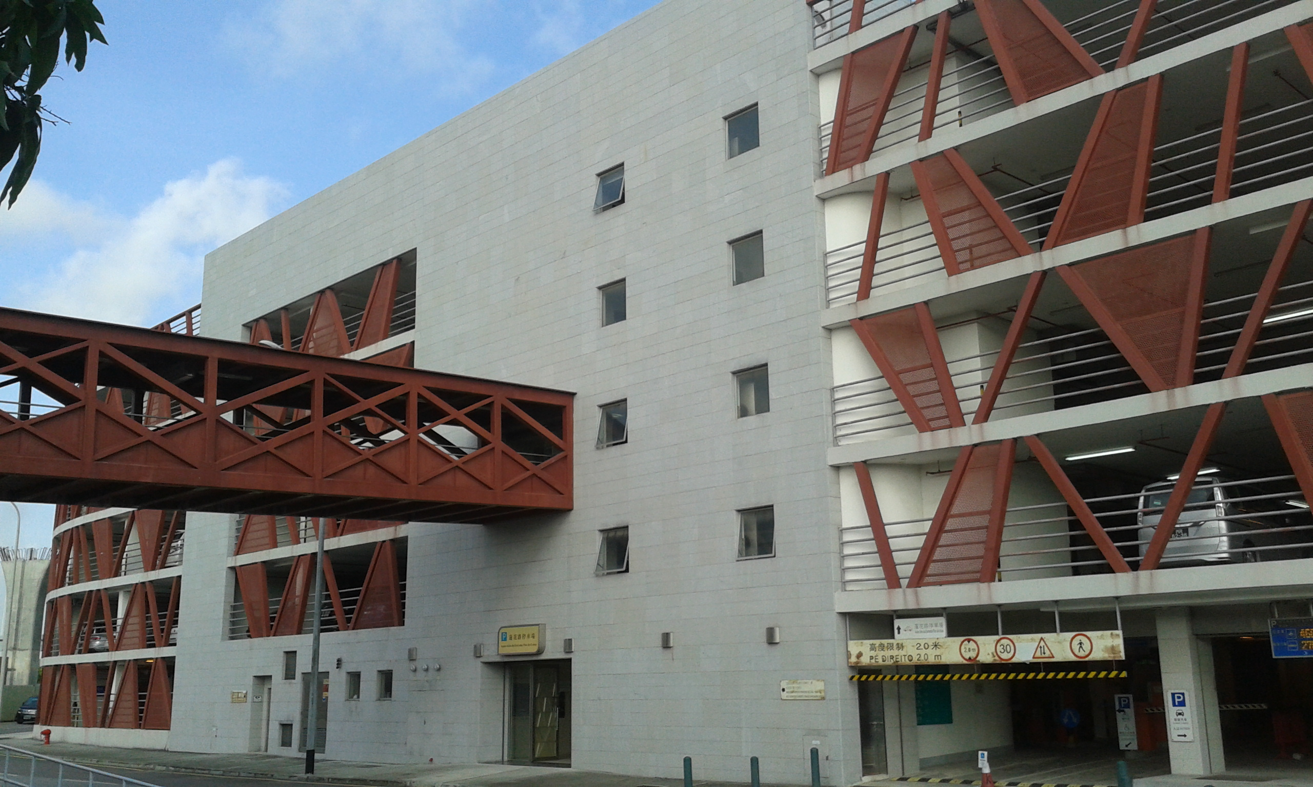 Lotus Checkpoint Carpark